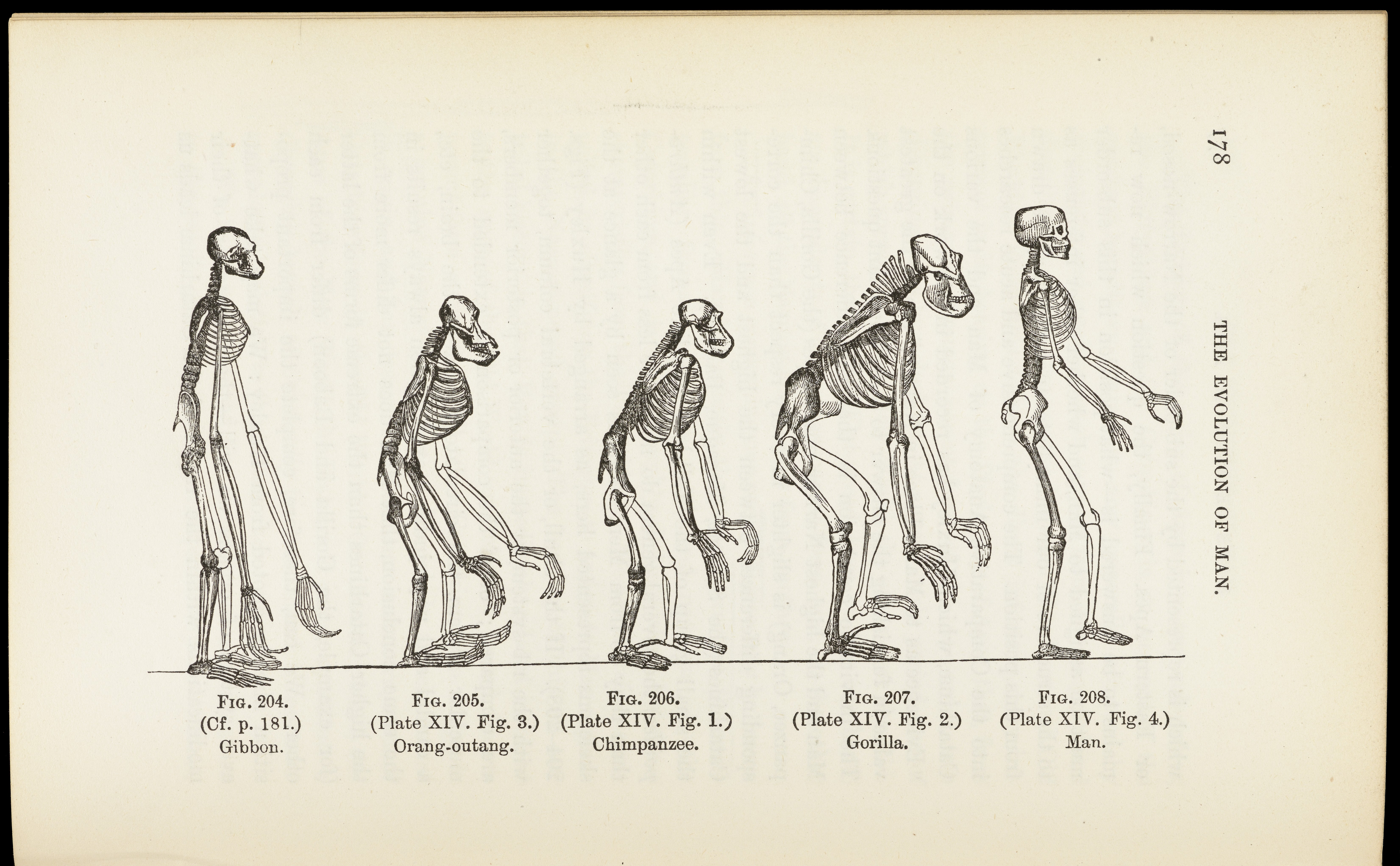 Illustration: 'The Evolution of Man' General Collections